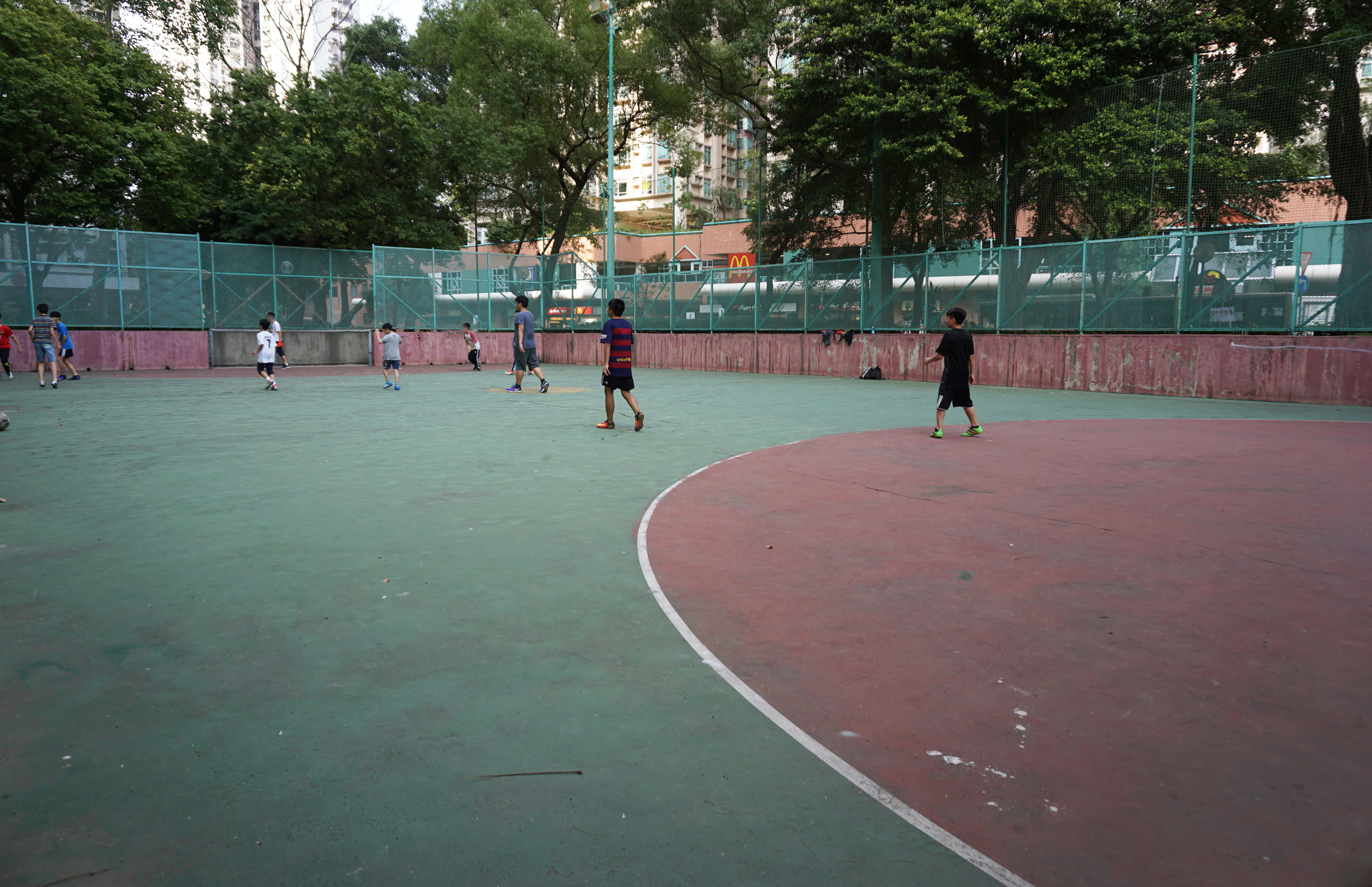 Wah Ming Estate in Fanling, Hong Kong.